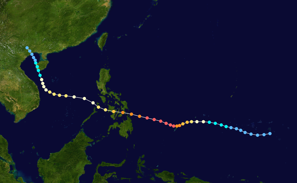 Typhoon Mike (1990) track. Uses the color scheme from the Saffir-Simpson Hurricane Scale.